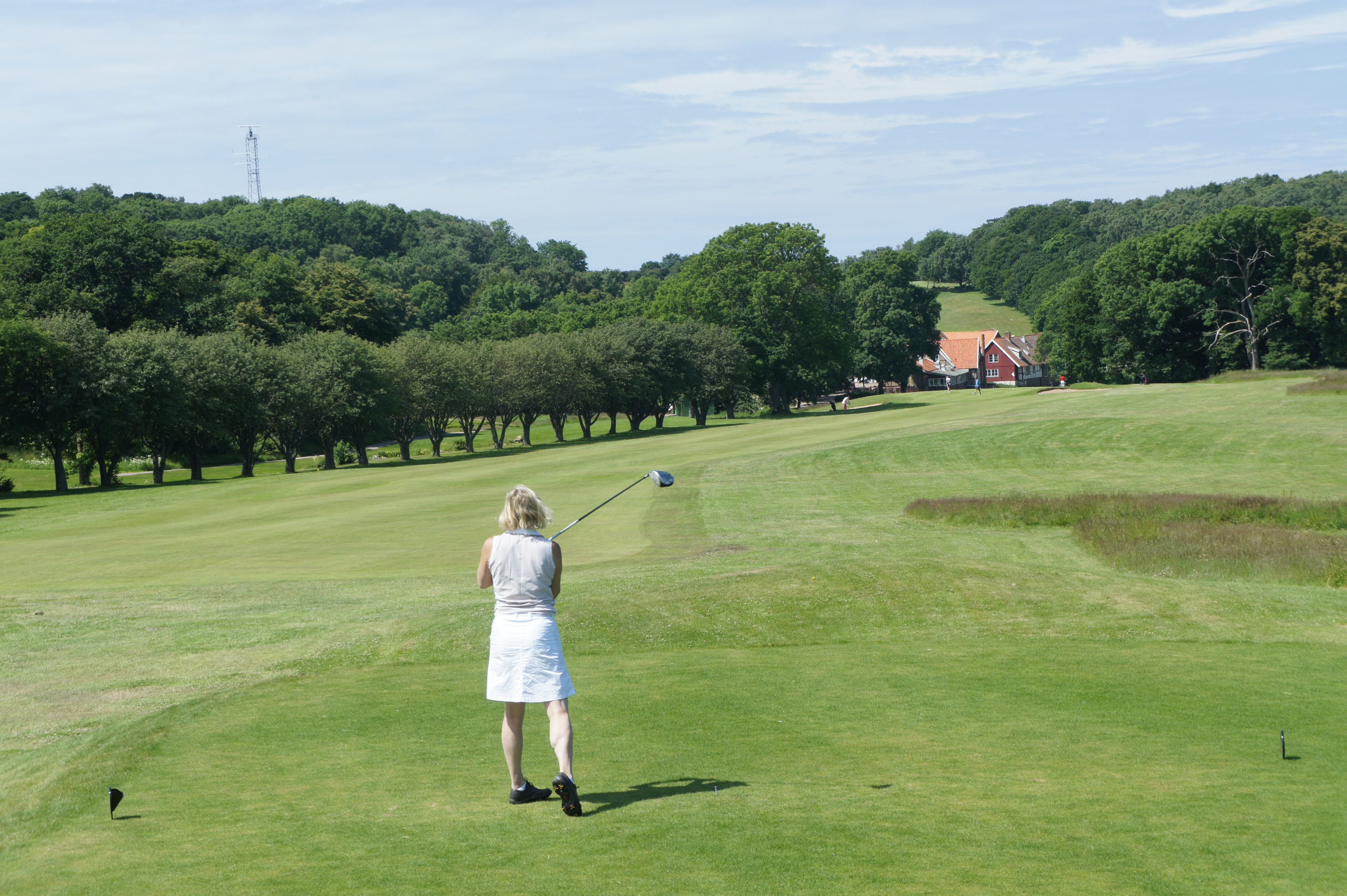 Mölle golf-course, Höganäs municipality, Sweden